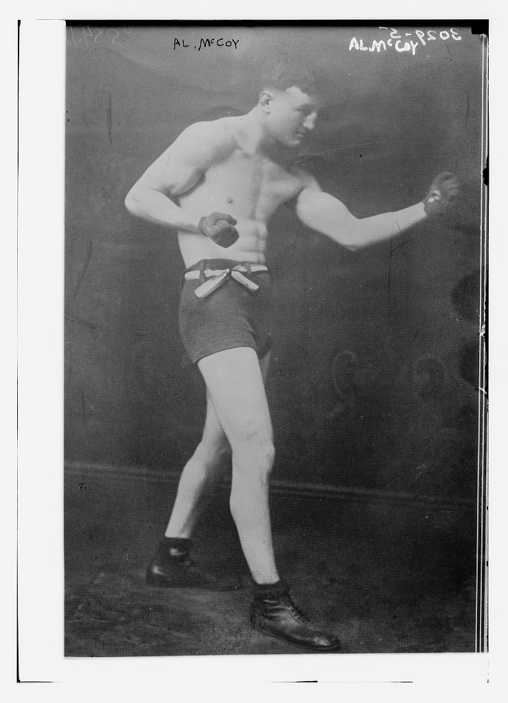 Bain News Service,, publisher. Al McCoy circa 1915 [between ca. 1910 and ca. 1915] 1 negative : glass ; 5 x 7 in. or smaller. Notes: Title from unverified data provided by the Bain News Service on the negatives or caption cards. Forms part of: George Grantham Bain Collection (Library of Congress). Format: Glass negatives. Repository: Library of Congress, Prints and Photographs Division, Washington, D.C. 20540 USA, General information about the Bain Collection is available at Persistent URL: Call Number: LC-B2- 3029-5